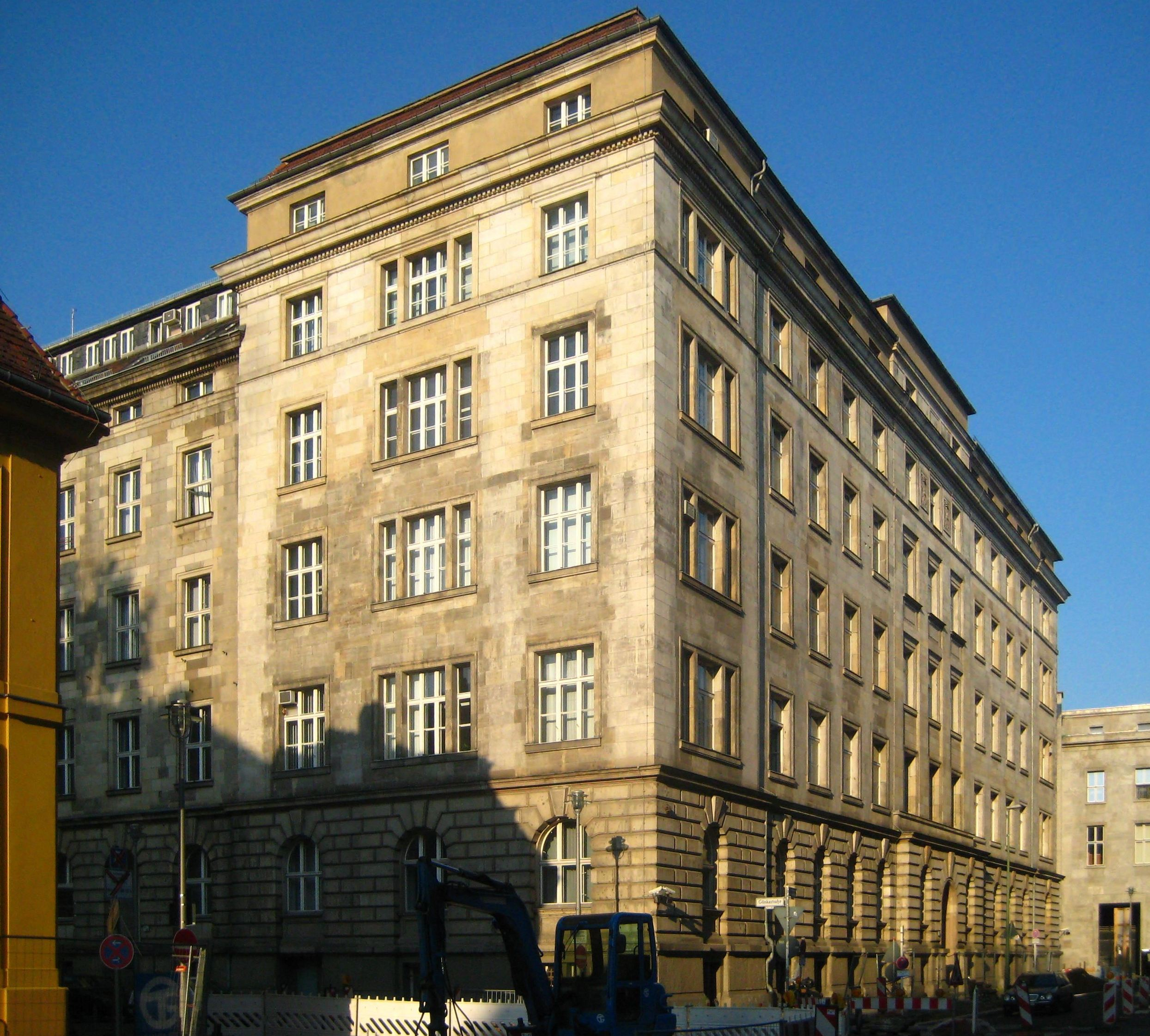 Former main administration building of the Allianz Insurance company at Taubenstraße No. 1 in Berlin-Mitte, built 1900 to 1901.